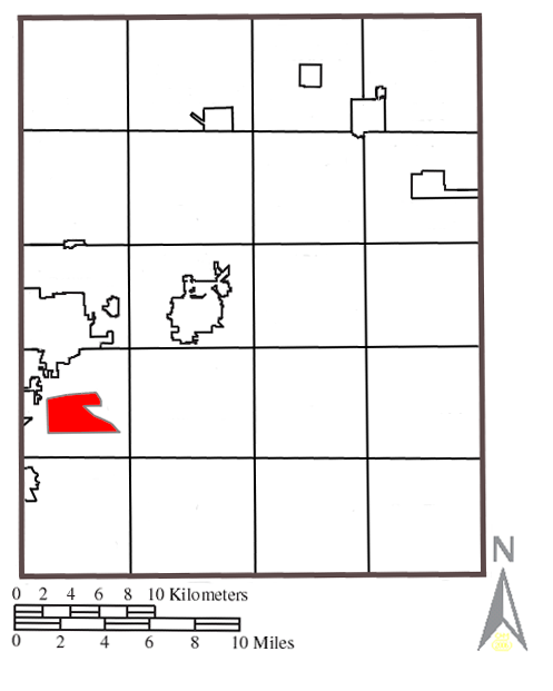 Map of Portage County, Ohio with the Brimfield Cenusus-designated place (CDP) highlighted.